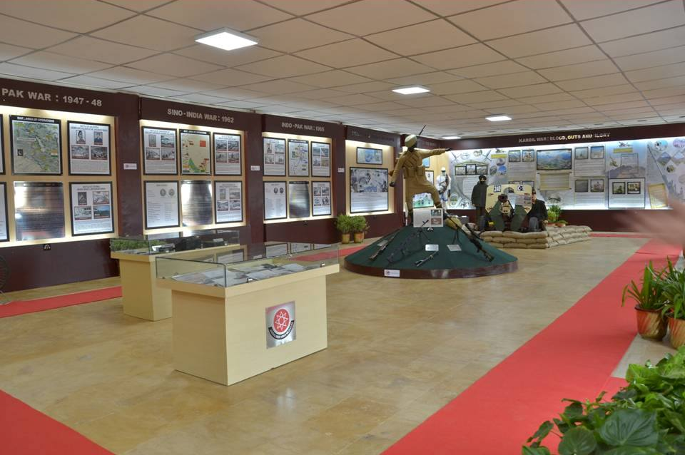 Panaromic view of Indian Army Hall from another angle, Jaisalmer War Museum.